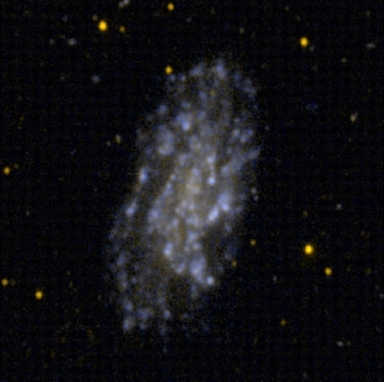 NGC 2541